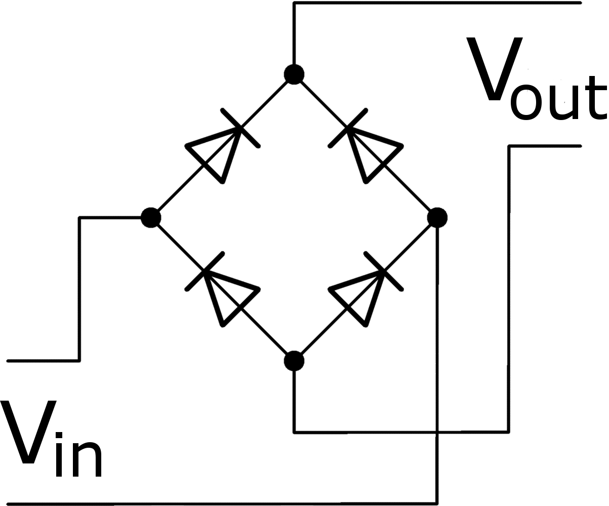 A 4 diode bridge rectifier in the diagonal form often seen in schematics.